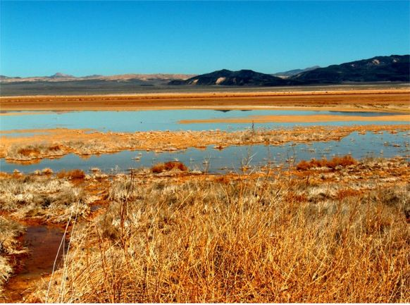 Harper Lake Marsh in the Mojave National Preserve